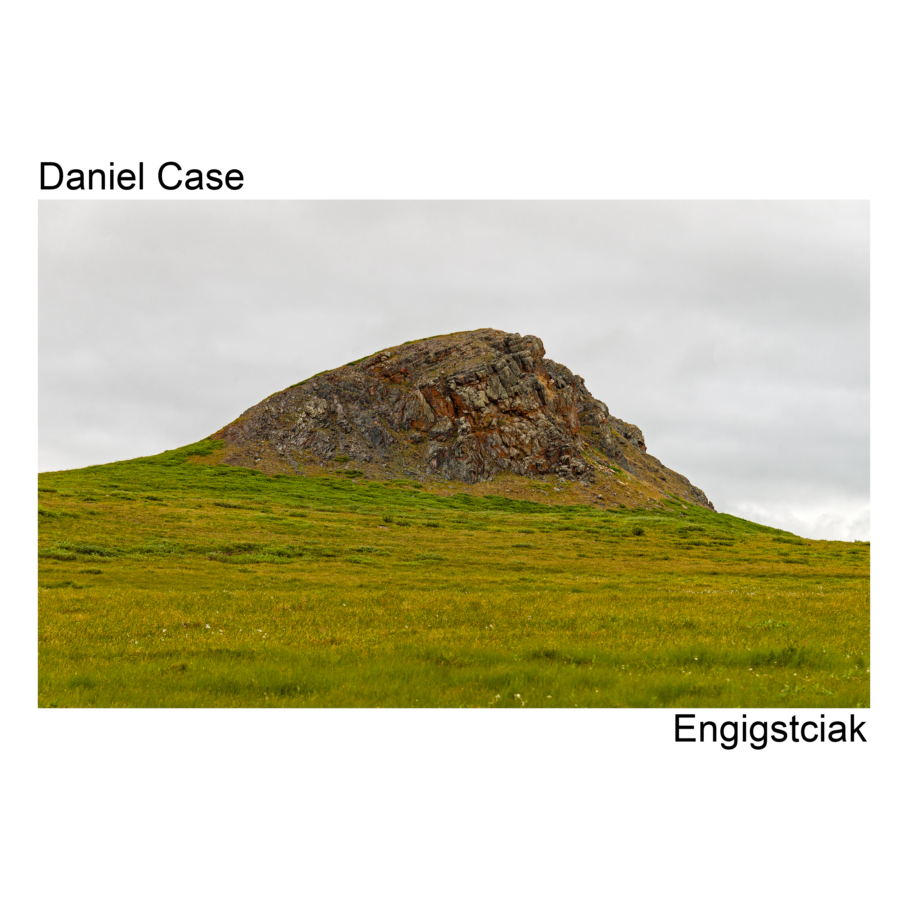 Image of Engigstciak, in Canada's Ivvavik National Park, styled to look like a 1980s Windham Hill Records album cover